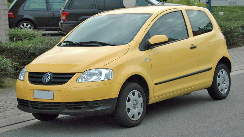 2006 (?) Volkswagen Fox 3-door hatchback, yellow, registered and perhaps also photographed in Belgium Original photograph modified using GIMP (cropped, license plate number removed)